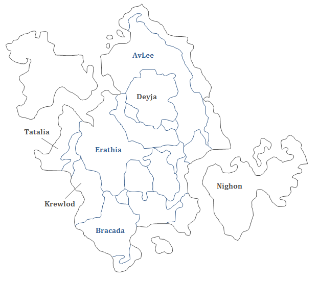 Approximative layout of Antagarich, the fictional continent where the campaigns of the video game Heroes of Might and Magic III (1999) takes place.